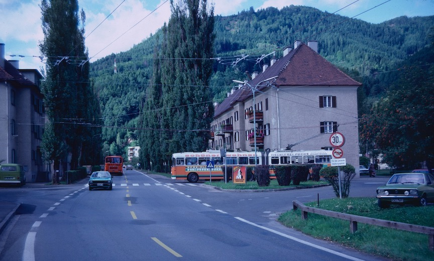 Trolleybus 31 of the Mürztaler Verkehrs-Gesellschaft (based in Kapfenberg, Austria), turning at Redfeld terminus on 5 September 1983 – on a test or driver-training trip one week before the Redfeld line was reconverted to trolleybus service, after 20 years of being a motorbus line. (Trolleybuses had previously served the line until 1963.) Number 31 was a 1963 Büssing/Emmelmann trolleybus that MVG had acquired secondhand in 1969 from Giessen, where it had been No. 24 in that city's trolleybus fleet.